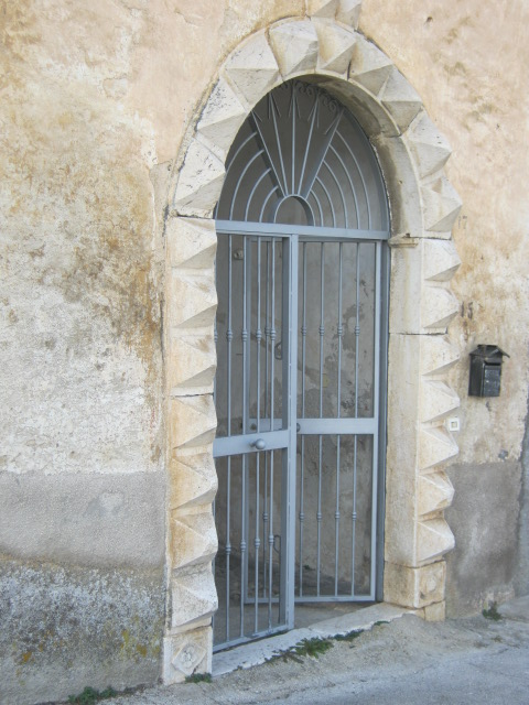 Palazzo Panicali in Alvito, Italy. The spearhead portal.